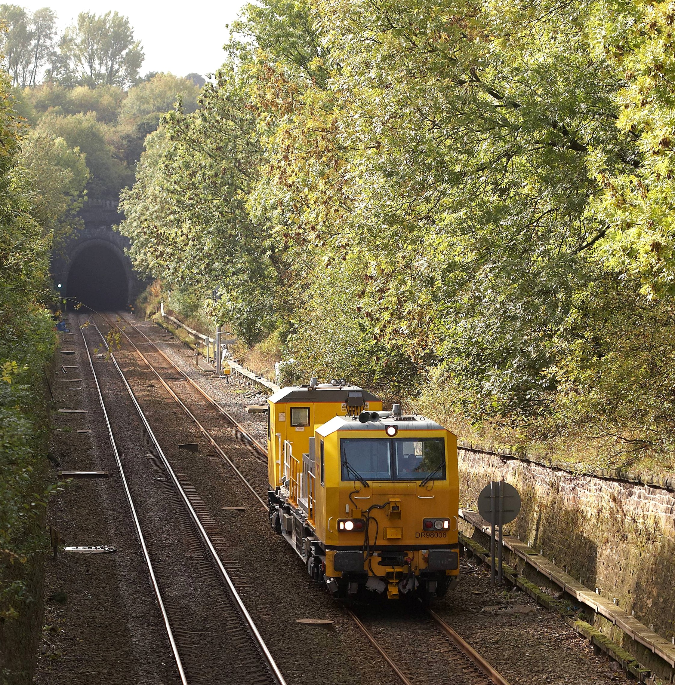 Network Rail DR98008, British Rail MPV (Multi purpose vehicle) heading north out of Clay Cross Tunnel. Currently tasked to Signals and Crossings (S&C) duties, and equiped with a large number of cameras for monitor pointwork, particularly in the Manchester area to displace on-track foot patrols.